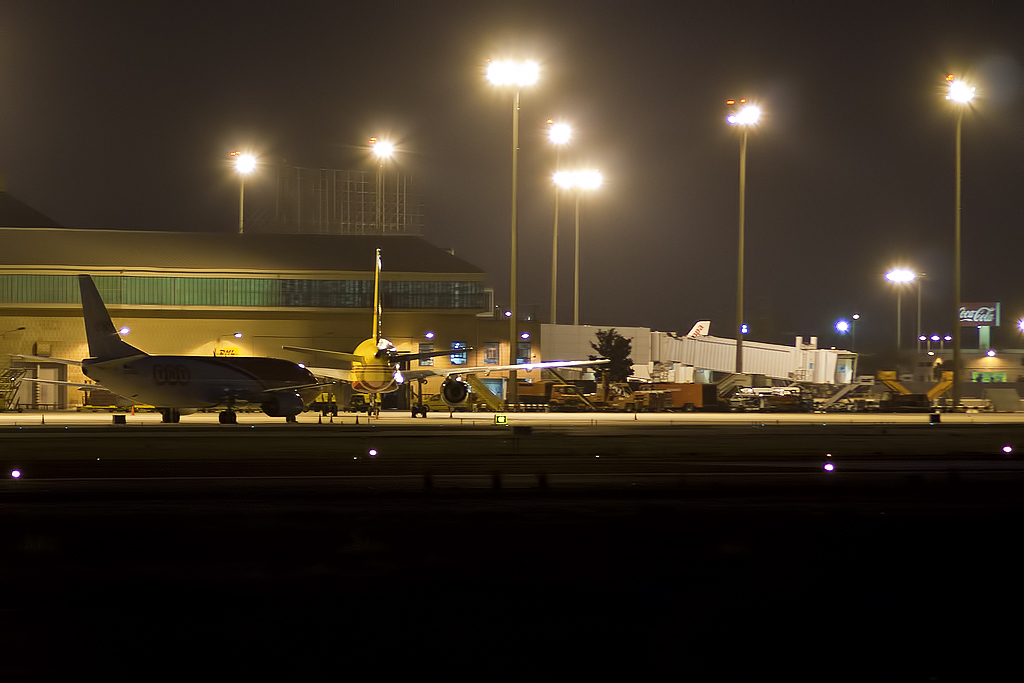 Seville Airport apron at night